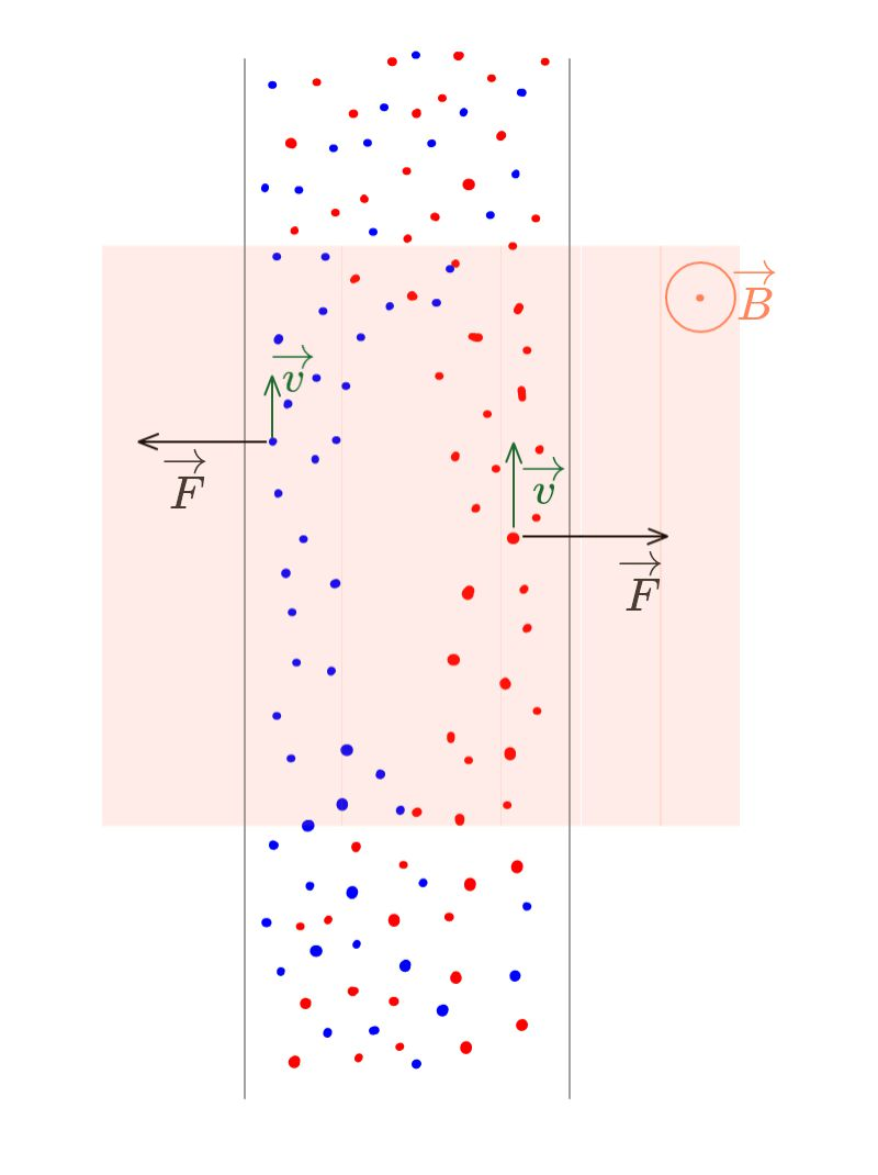 Electromagnetic flowmeter microscopical funcionament principle (with flow)